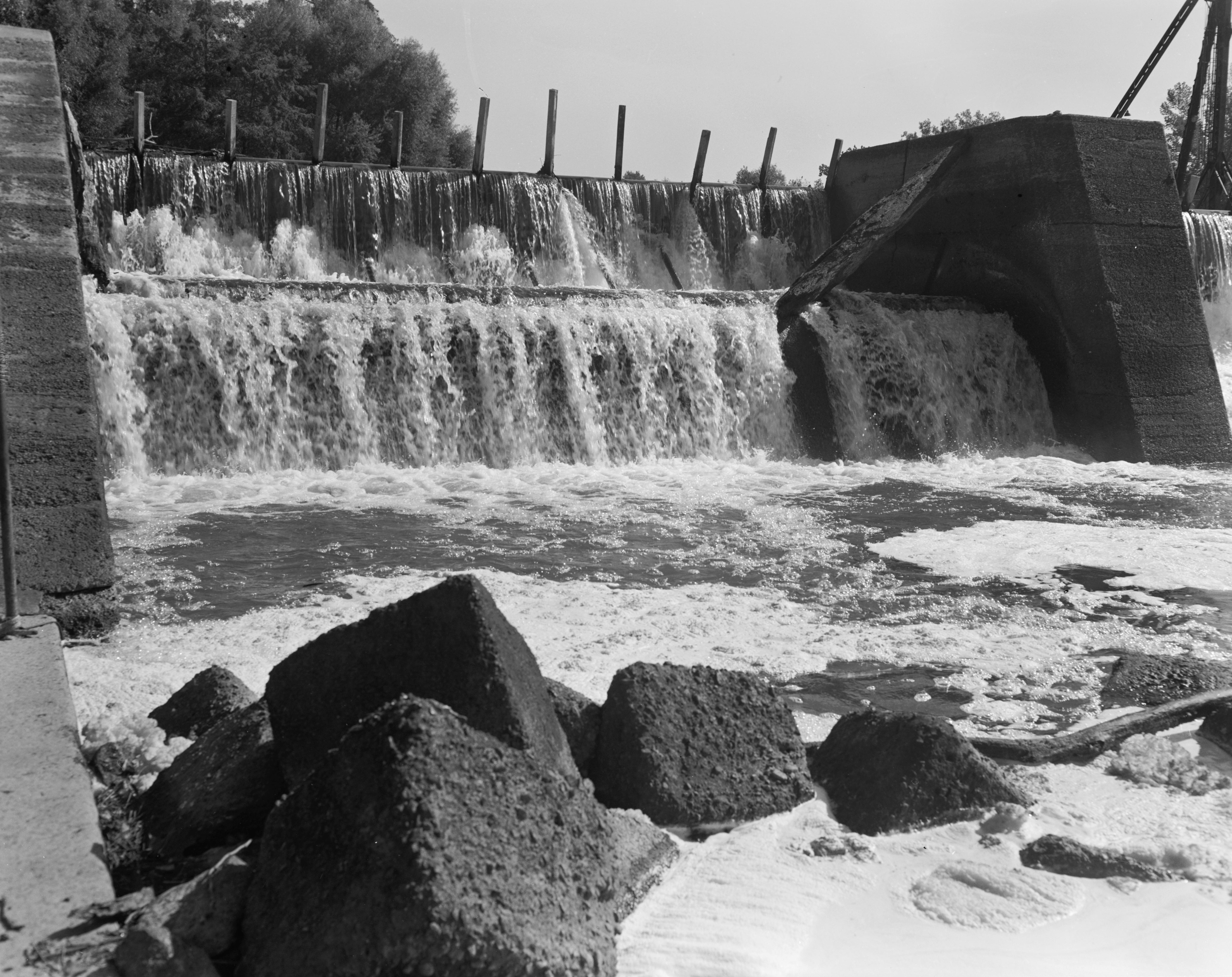 Details of Dam 8 on the Ouachita River, located southeast of Calion in Calhoun County, Arkansas, United States. Built in 1907, the dam and its associated lock are listed on the National Register of Historic Places.